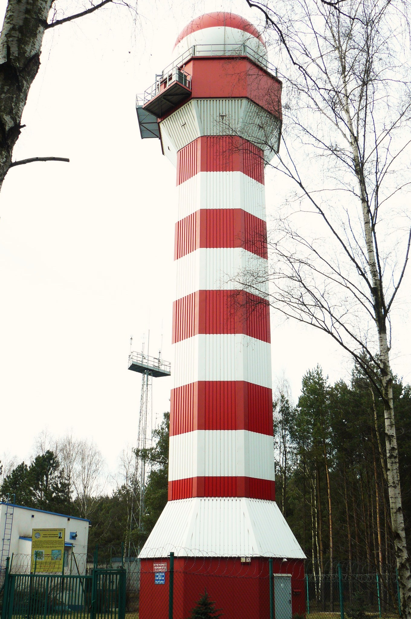 Wysogotowo, meteo-radar.